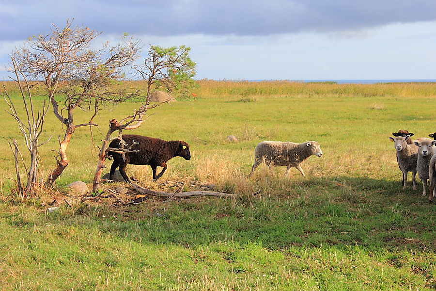 Sheeps on the coastal meadow in Kihnu. Estonia